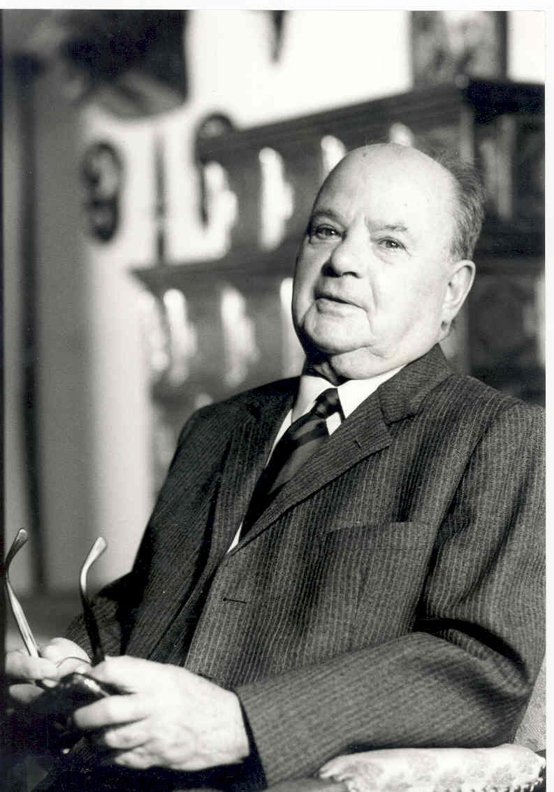 Hans Hirsch